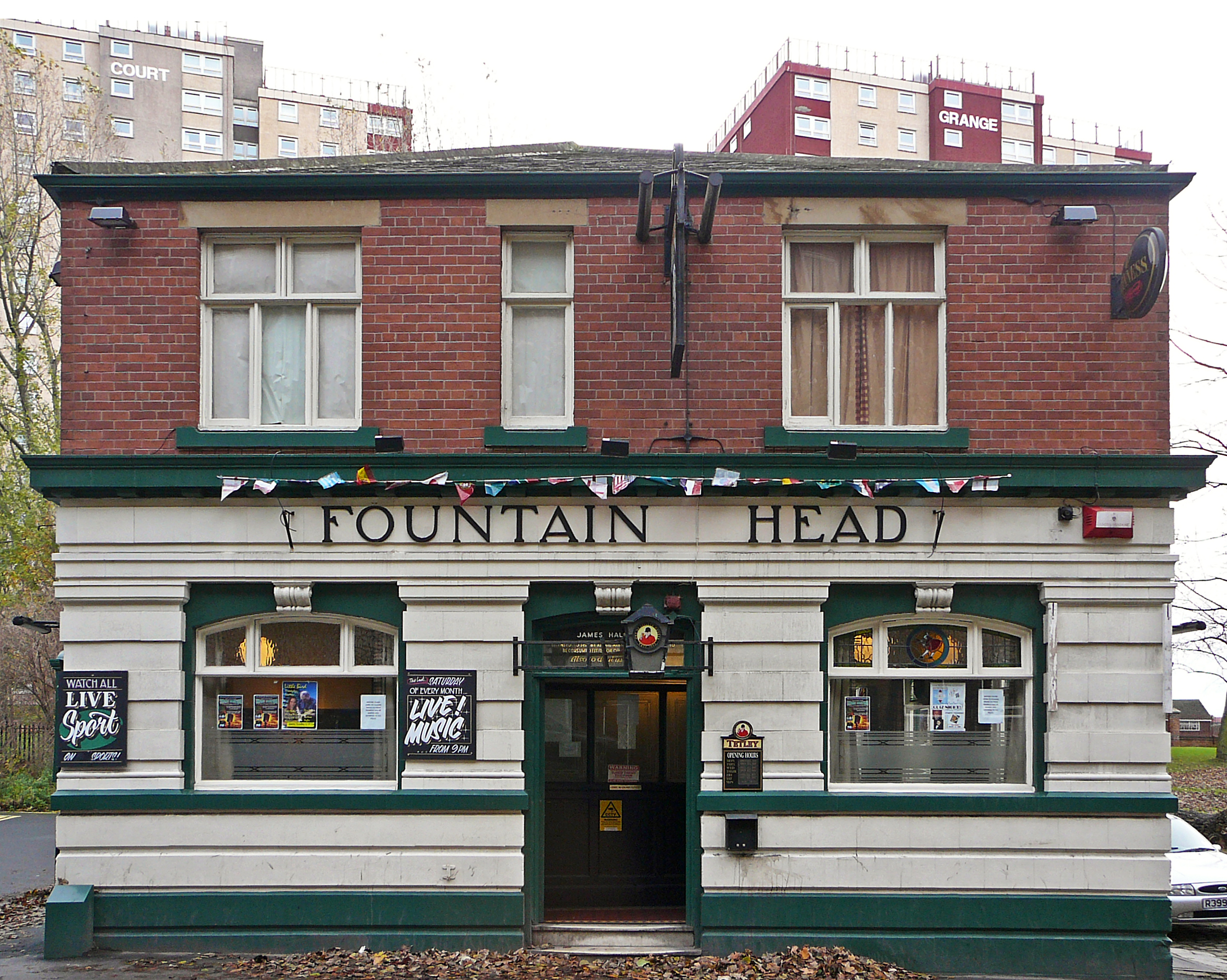 The Fountain Head pub on Beckett Street in Burmantofts, Leeds, West Yorkshire. Taken on Sunday the 14th of November 2010.